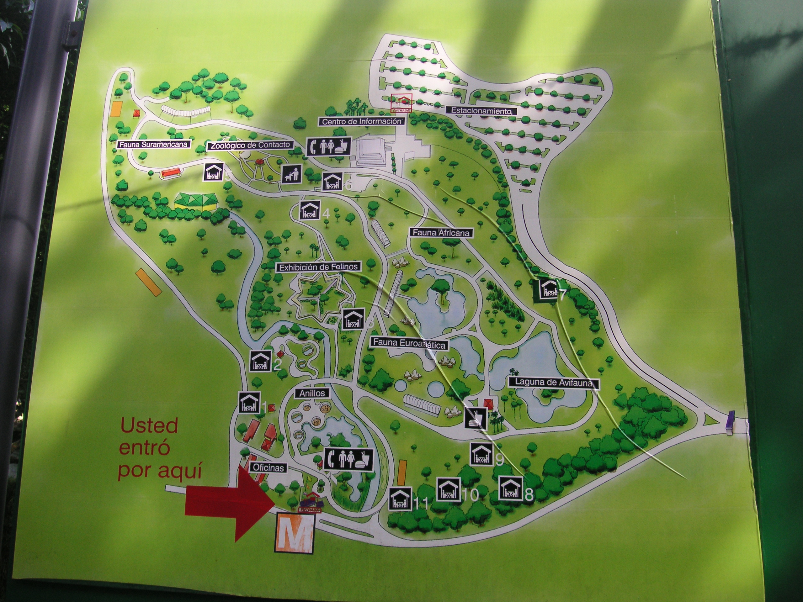 Caracas Zoo